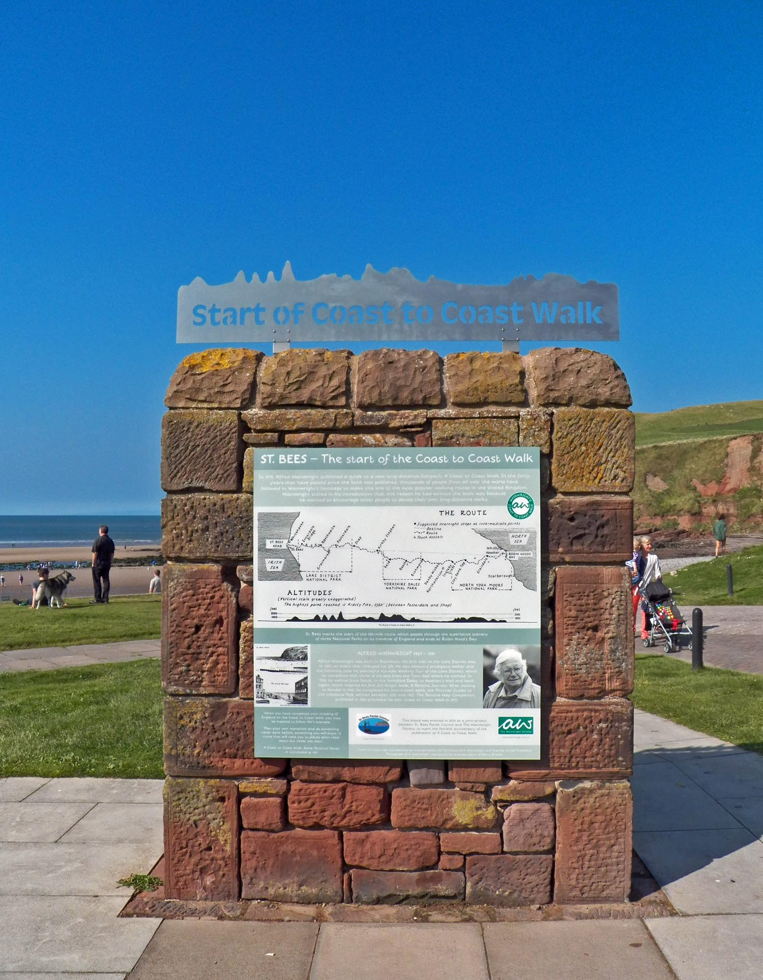 The start of the Wainwright Coast to Coast Walk at St Bees Seacote beach. Sign refurbished 2013 and stainless steel start banner added; a joint project between Wainwright Society and St Bees Parish Council.